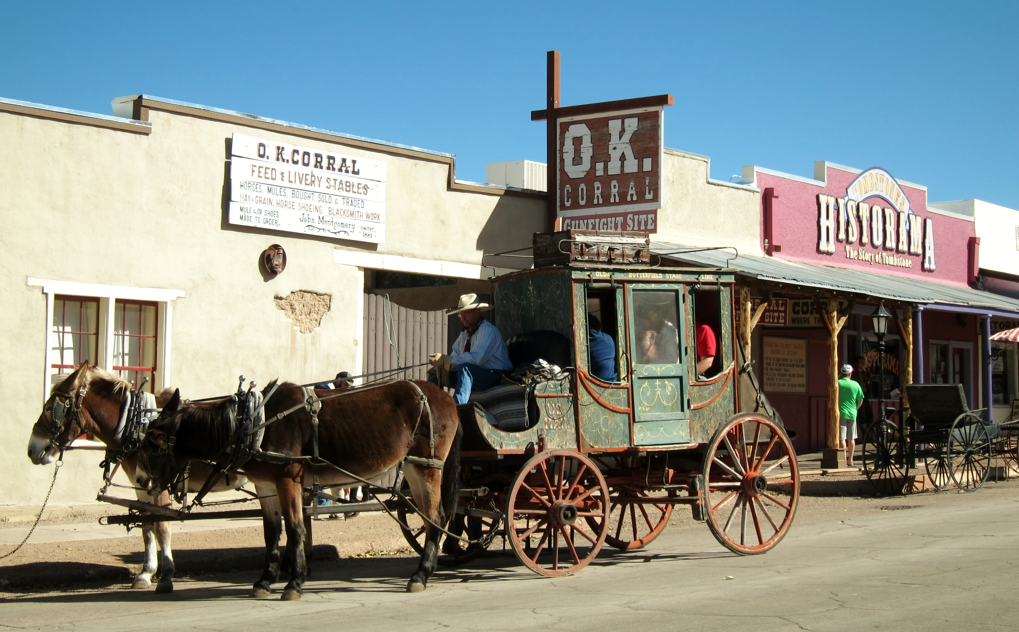 Tombstone, AZ 85638, USA